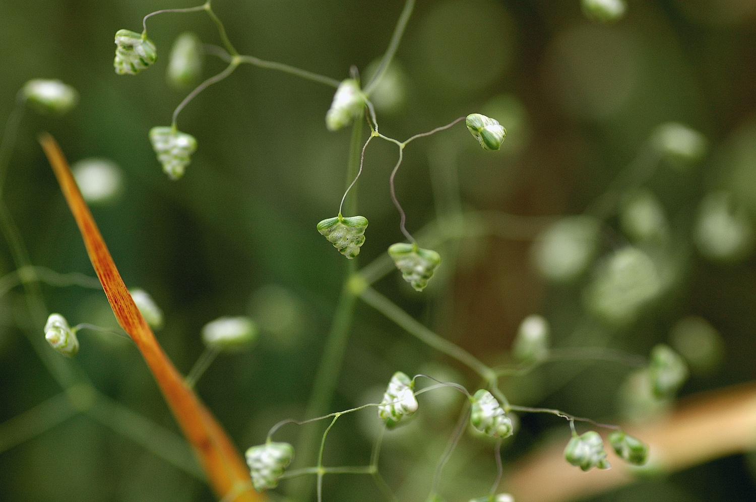 Photograph of Briza minor, taken in Tama city, Tokyo, Japan.